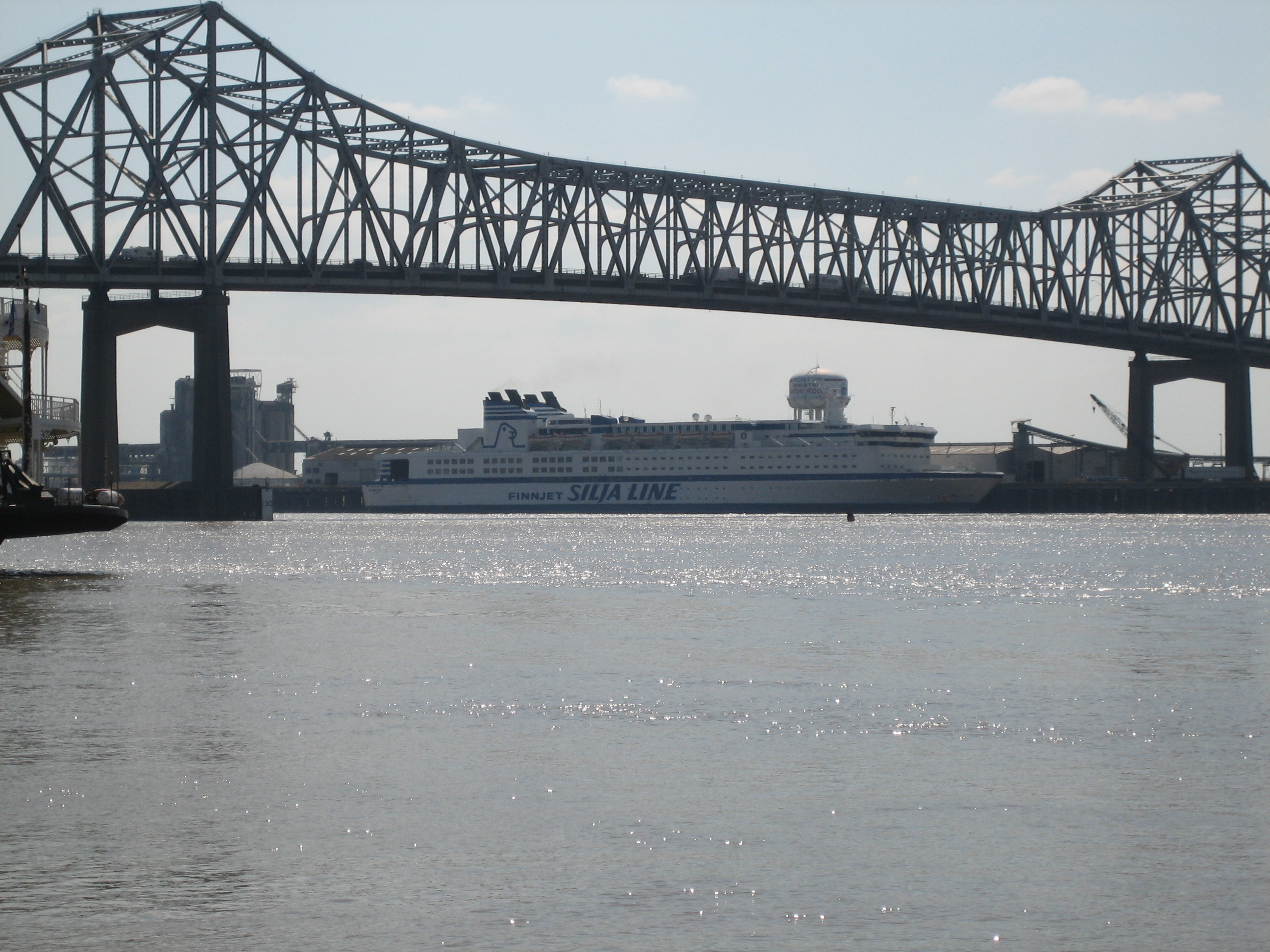 GTS Finnjet docked on the banks of the Mississippi River in Port Allen, West Baton Rouge Parish, Louisiana, USA. Horace Wilkinson Bridge above.